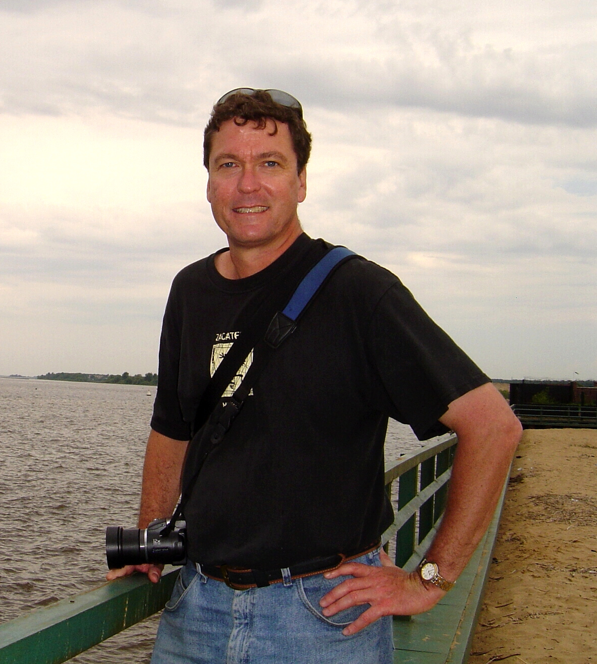 Canadian genocide scholar, political scientist, and photojournalist Adam Jones stands by the banks of the Volga River, Kazan, Russia.